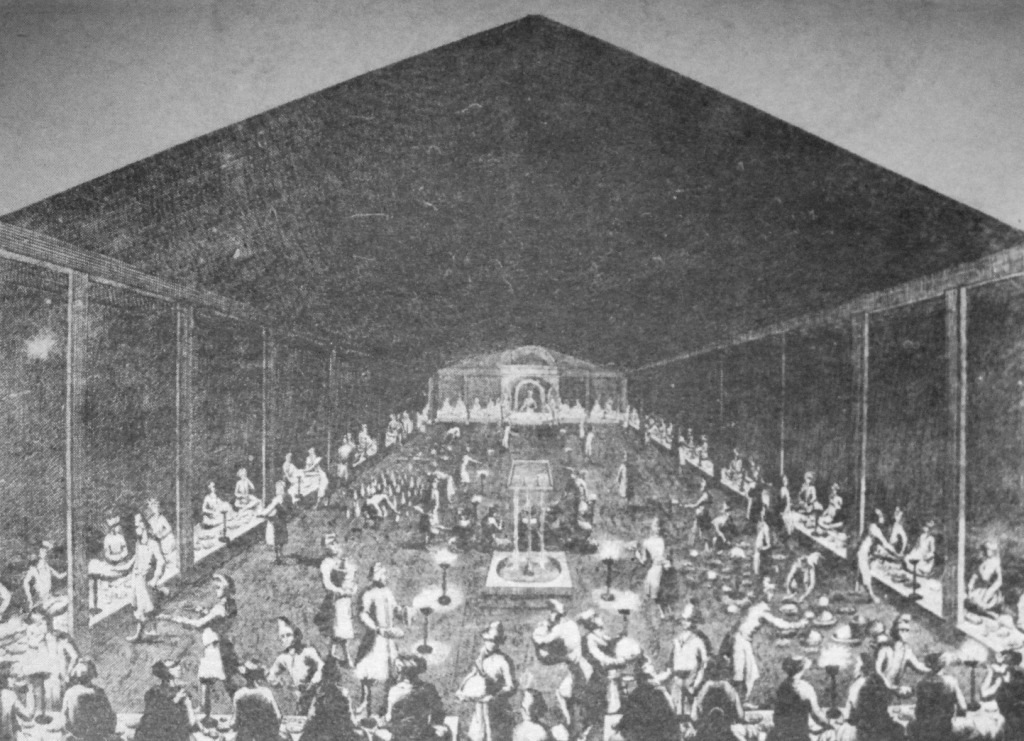 Royal banquet at the court of the Georgian king Vakhtang V (Shah-Nawaz) in Tbilisi. From the travelogue of the French merchant Jean Chardin